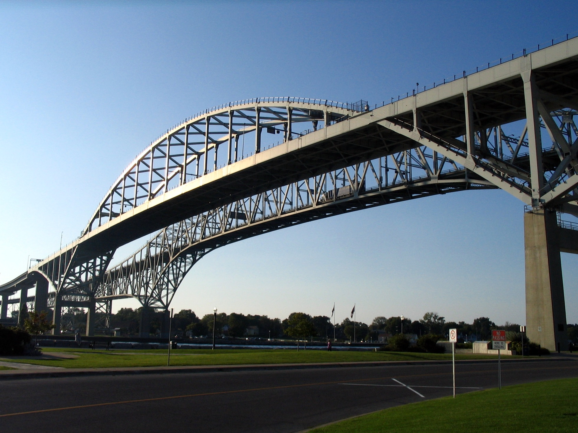 The Bluewater Bridge connecting Sarnia, Ontario and Port Huron, Michigan. The closer of the two spans is relatively new; the other one has been there like forever. (What, you want actual dates? Go look at wikipedia :p).